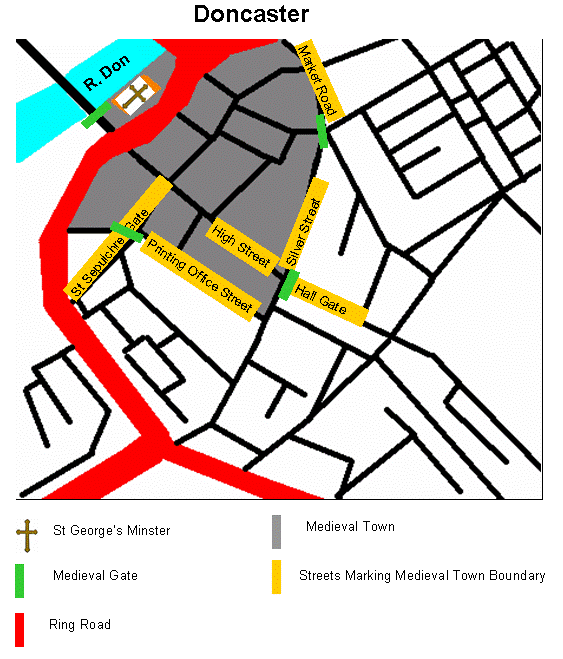 Plan of Doncaster in medieval times (about two years ago)